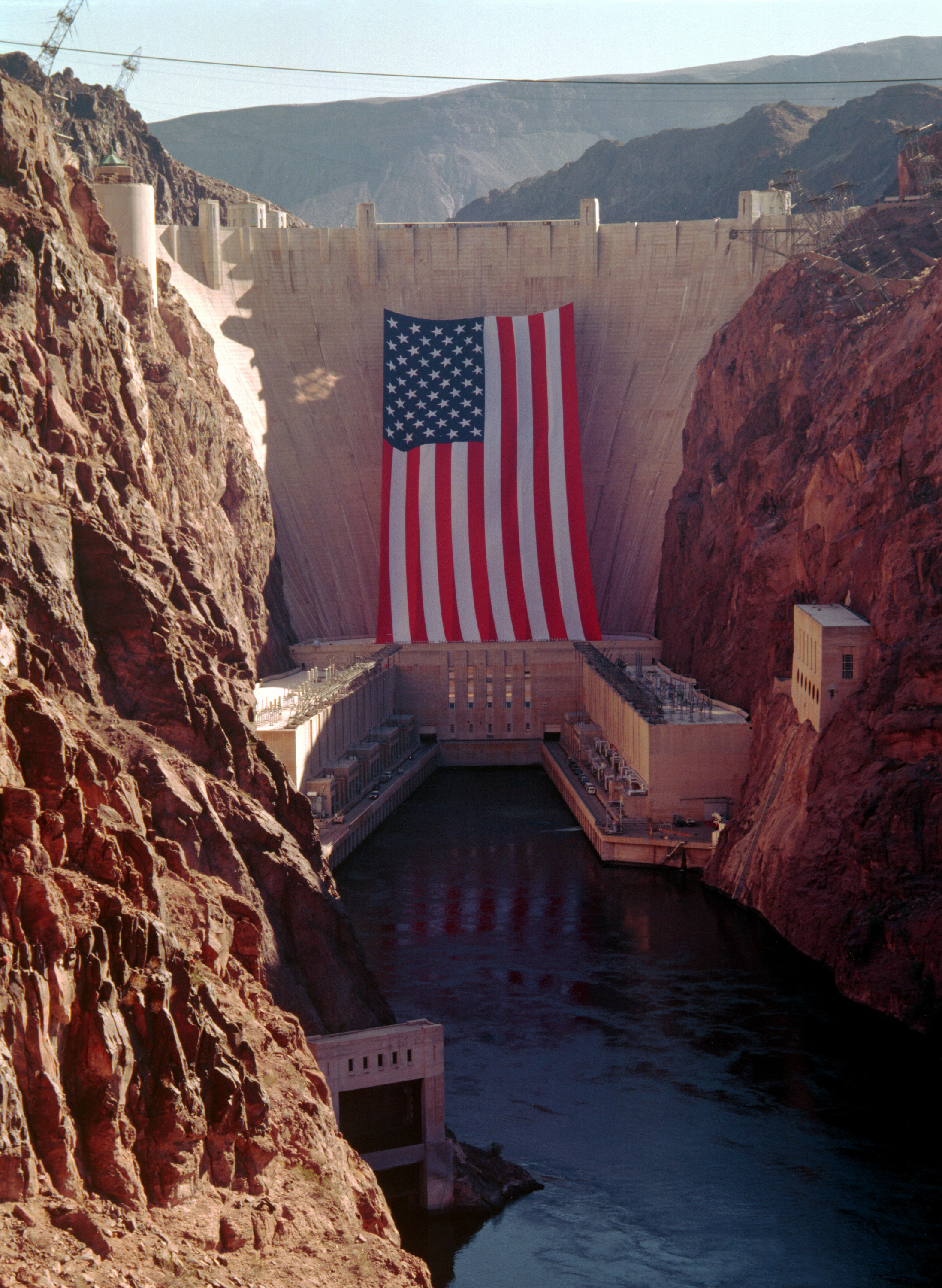 A 505 foot by 255 foot American Flag was flown from the downstream face of the dam. The flag weighed 3,000 pounds and was hoisted by three separate cables located at the top of the dam. The flying of the flag was part of a ceremony in which the 1996 Summer Olympic torch, on its way to Atlanta, Georgia, was carried across Hoover Dam.Location: HOOVER DAM, NEVADA (NV) UNITED STATES OF AMERICA (USA)